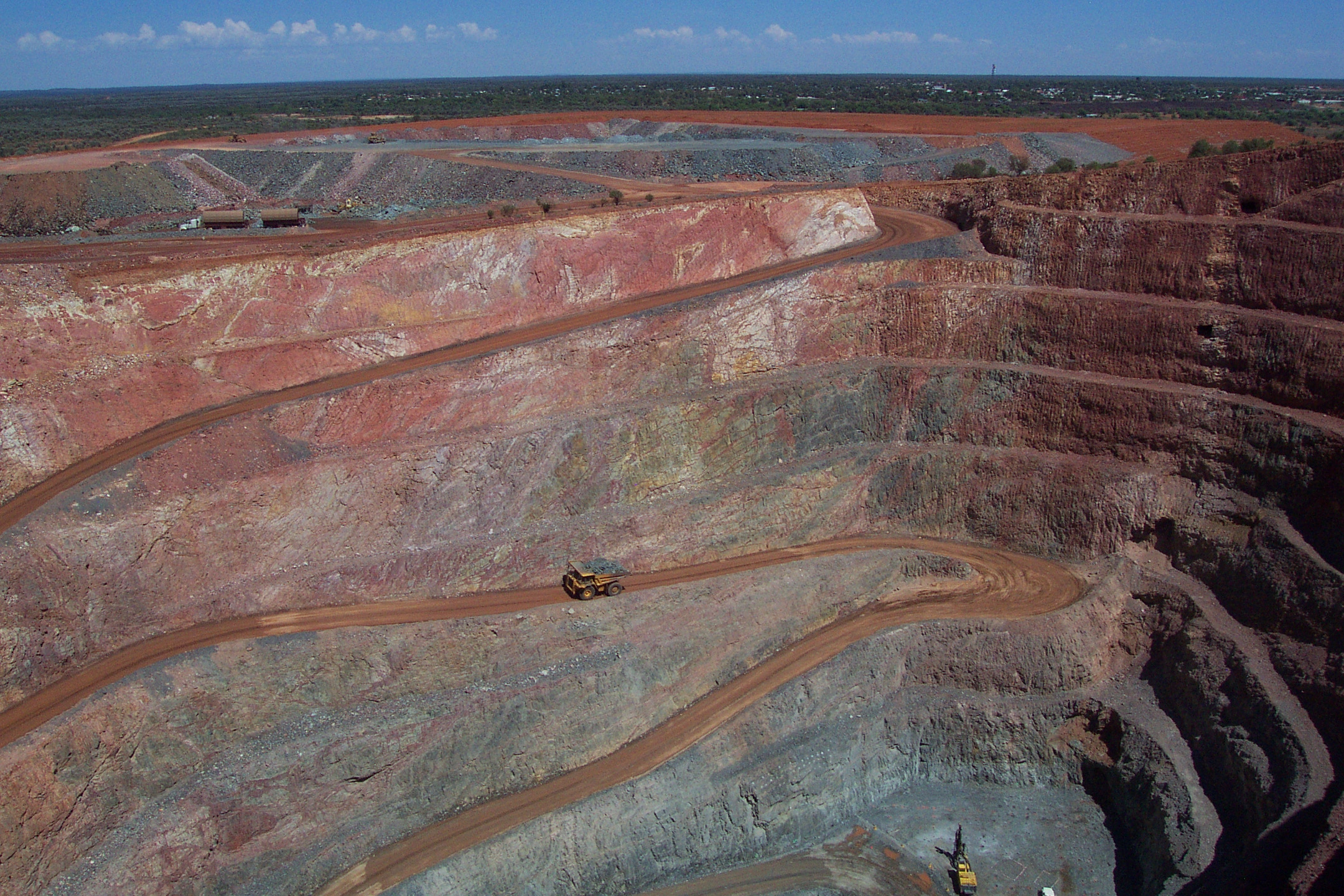 Cobar, New South Wales, mining